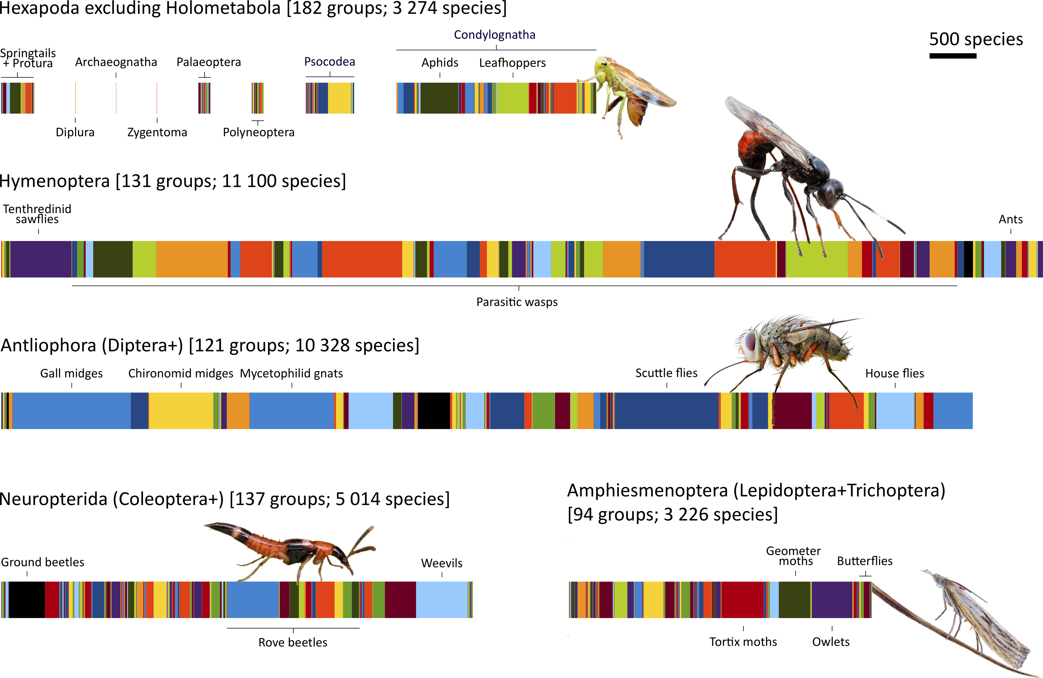 Detailed view of the taxonomic composition of the true Swedish insect fauna, as estimated here. Each colored fragment represents a different family (subfamily for Ichneumonidae, Braconidae and Staphylinidae); the width is proportional to the number of species. The families are grouped into monophyletic higher clades according to our current understanding of insect relationships. The inventory has shown that the fauna is much richer in Hymenoptera (sawflies, wasps, ants and bees) and Diptera (midges, gnats, mosquitoes and flies) than expected. These groups vastly outnumber Coleoptera (beetles), Lepidoptera (butterflies and moths) and other insect orders in terms of species diversity. Photographs (CC BY) John Hallmén.